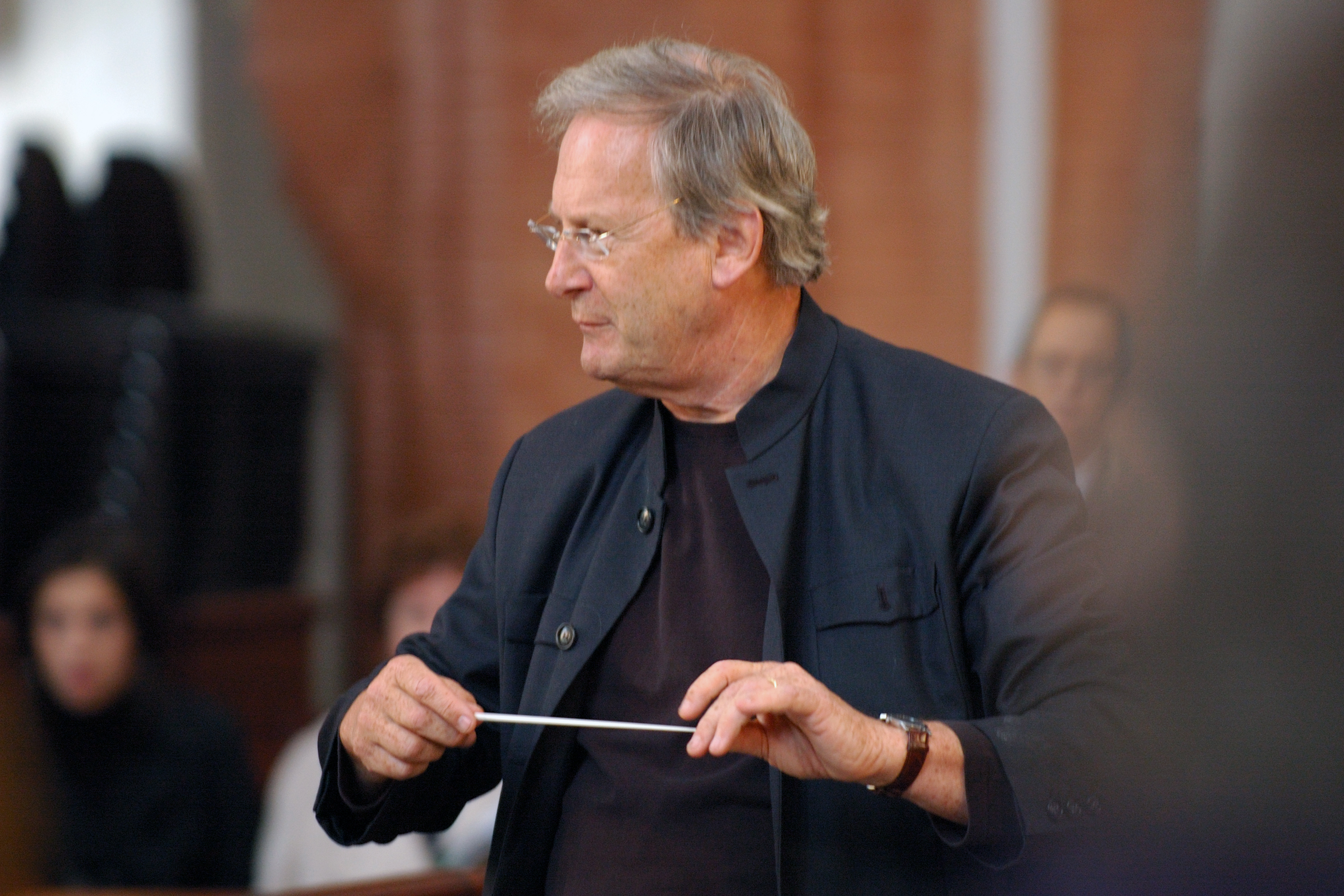 Conductor Sir John Eliot Gardiner at rehearsal in Wrocław (Poland) during the Wratislavia Cantans Festival (Photo taken by Maciej Goździelewski)